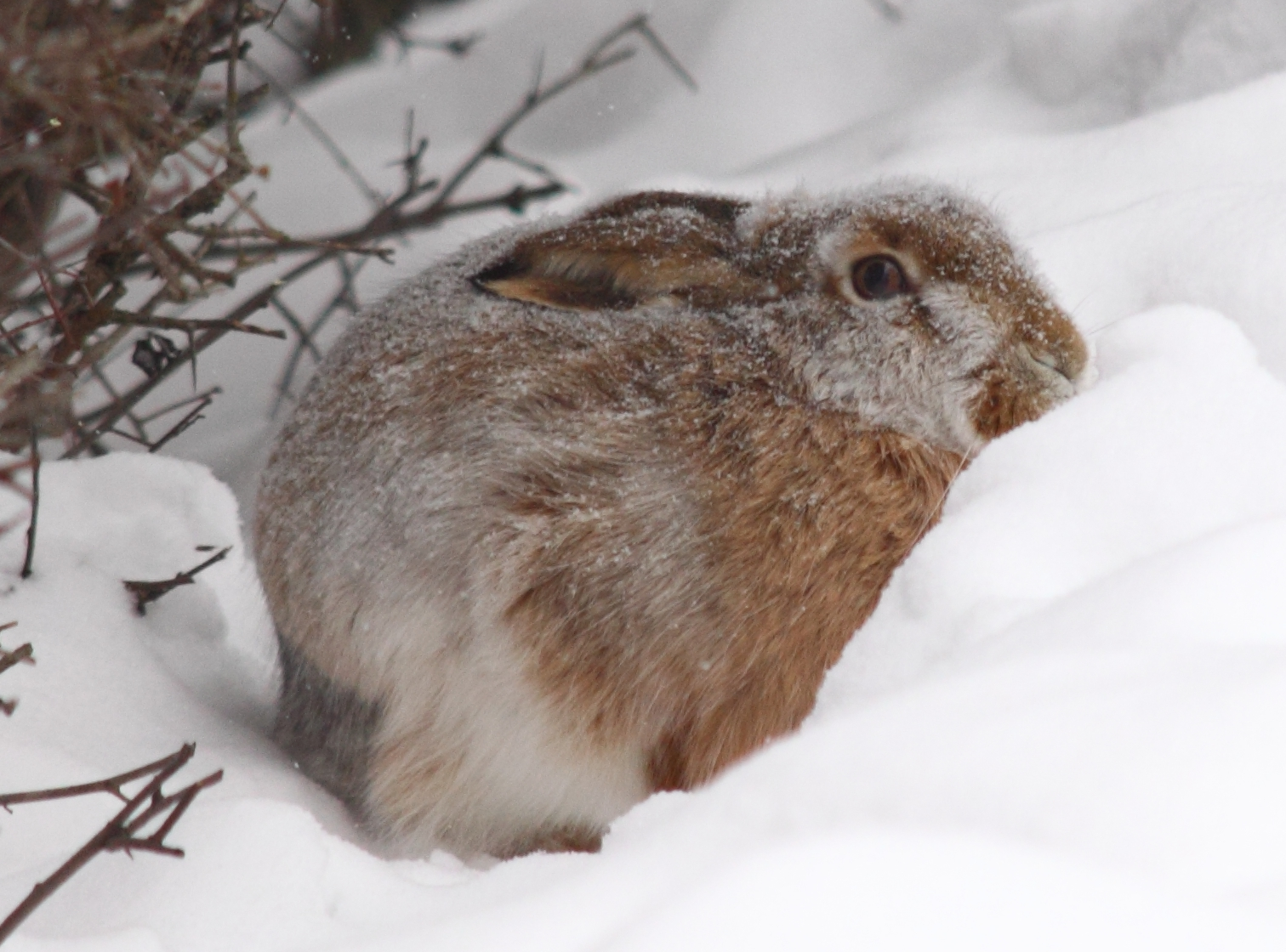 Lepus europaeus in winter Finland